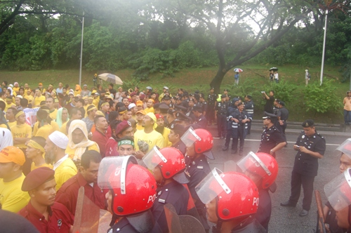 KL demonstrations 11/10/2007 By Mohd Hafiz Noor Shams. User:Earth. Therefore, that is me. Earth (Talk) 15:05, 11 November 2007 (UTC)